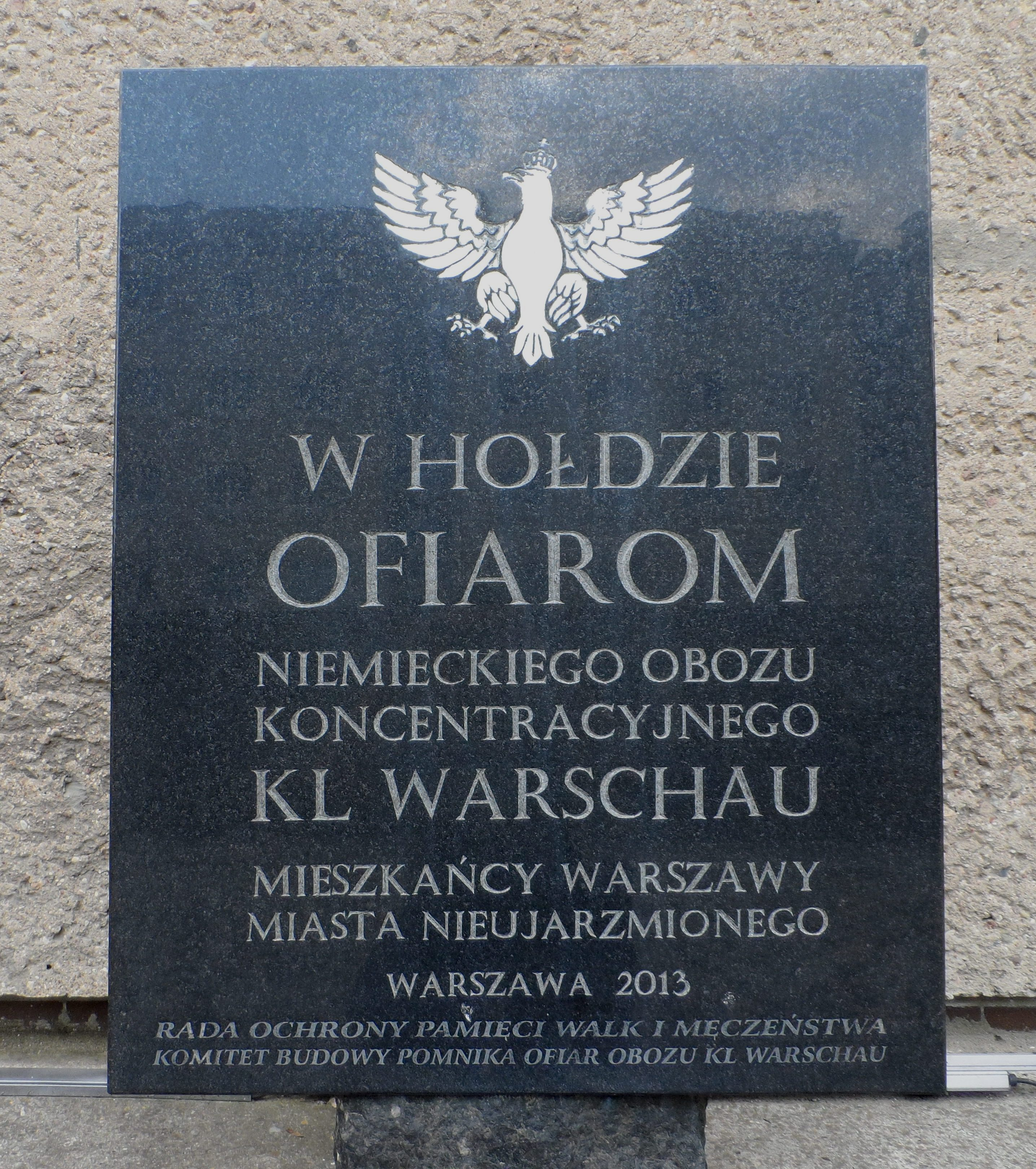 Commemorative plaque at Museum of the Prison Pawiak, commemorating the victims of the Nazi-German concentration camp in Warsaw (KL Warschau).